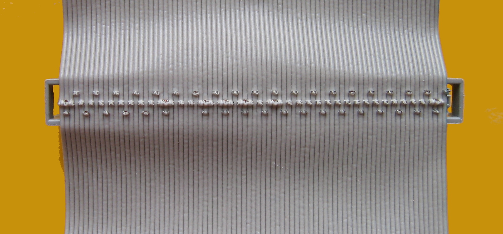 IDE PATA CS CABLE SELECT